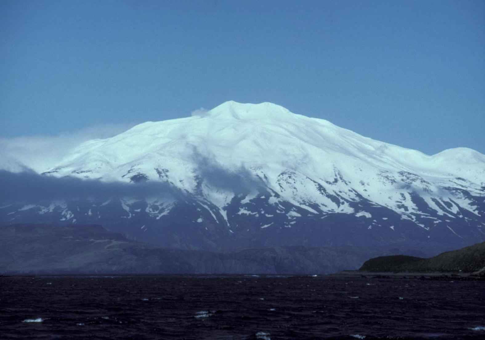 Image title: Kiska island volcano scenics mountain Image from Public domain images website